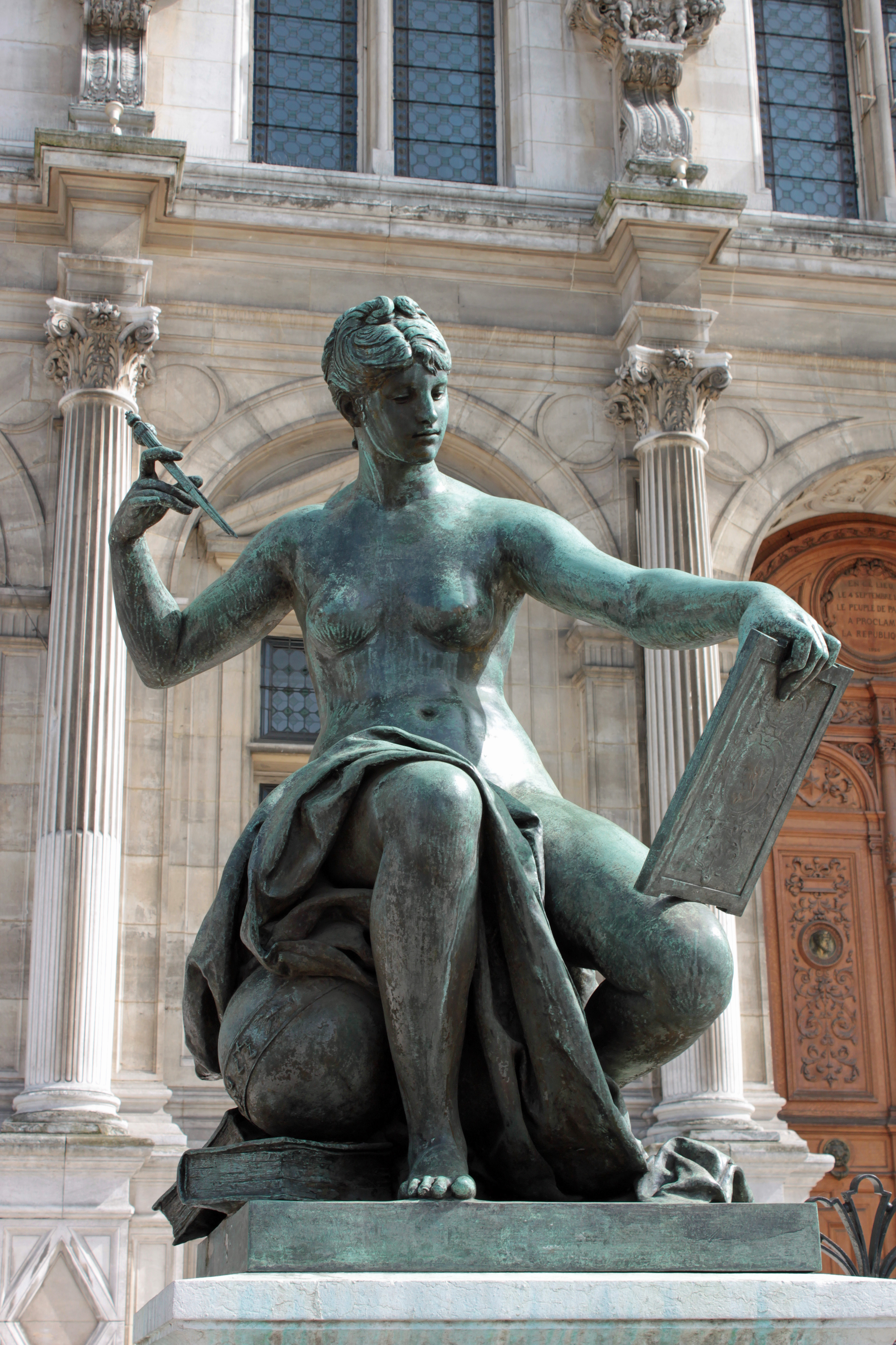 La Science, bronze allegory by Jules Blanchard, in front of the Hôtel de Ville, Paris.